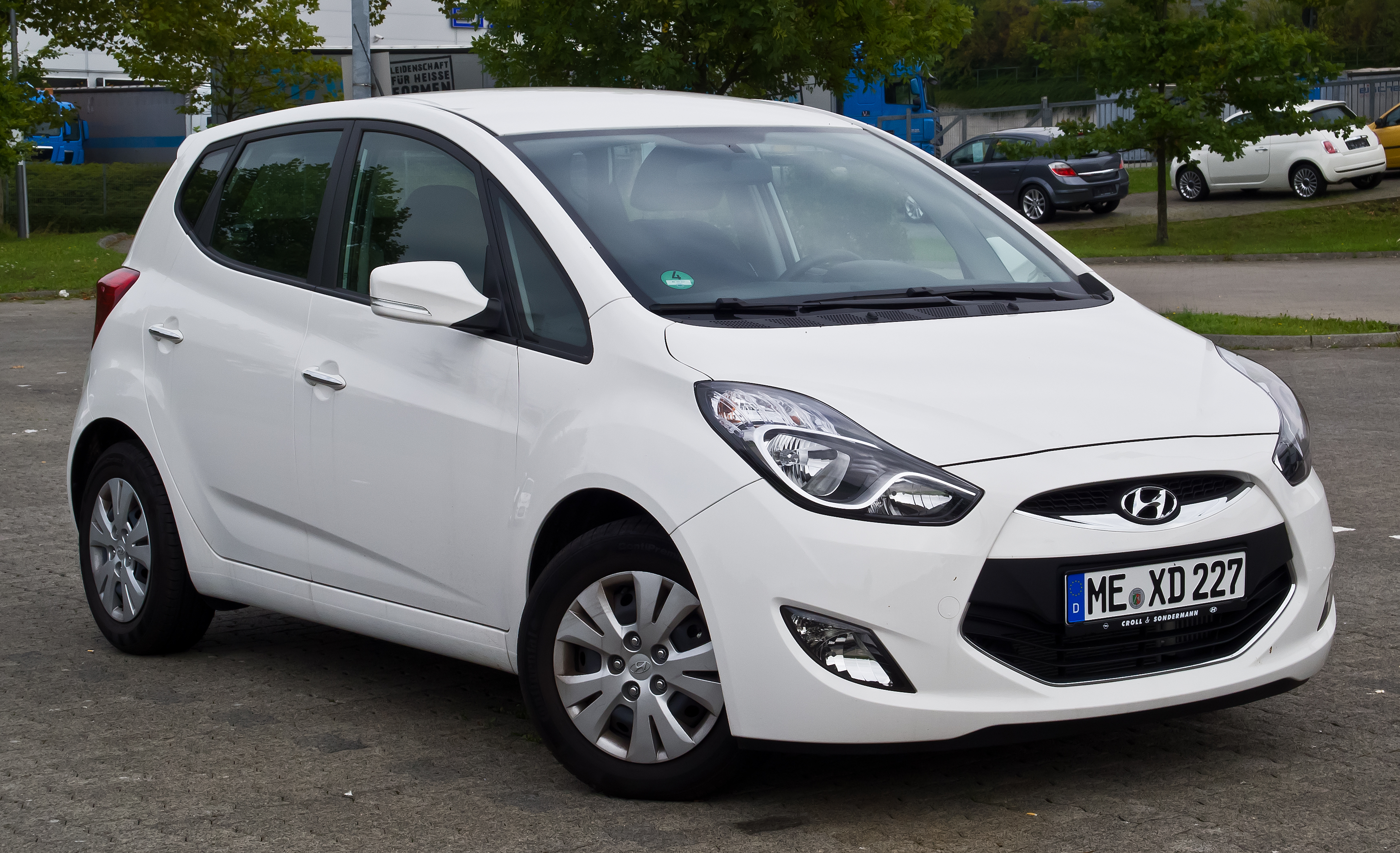 Hyundai ix20 1.6 CRDi UEFA EURO 2012 Edition